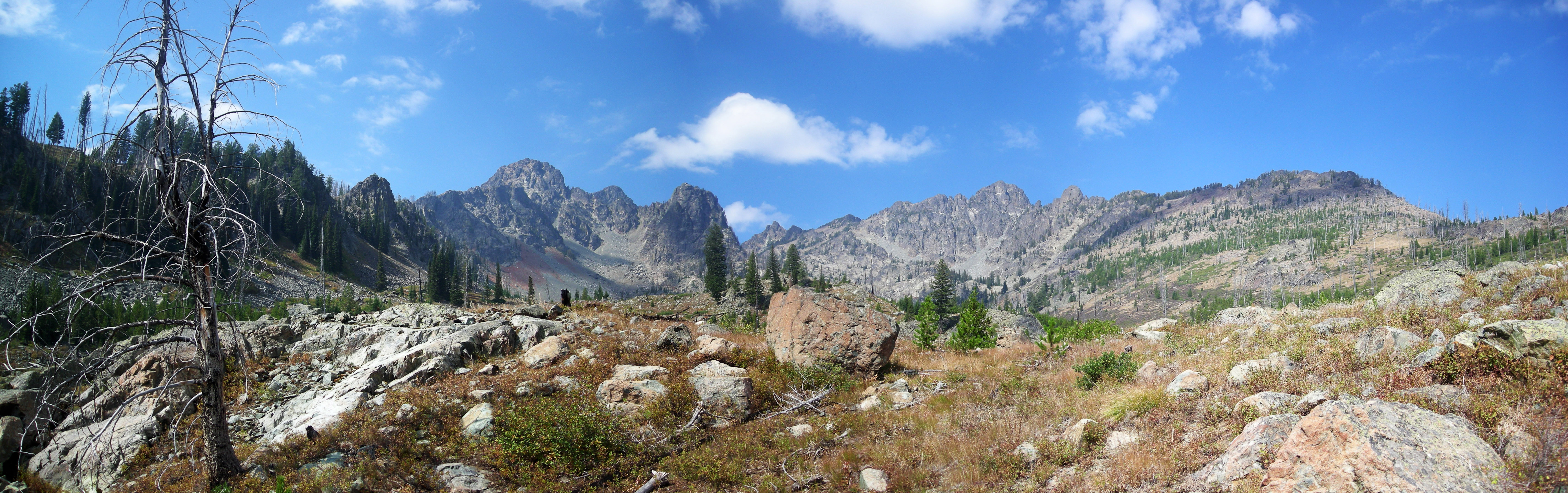 The Seven Devils Mountains looking from the east. Near Riggins, Idaho. (edited verison)